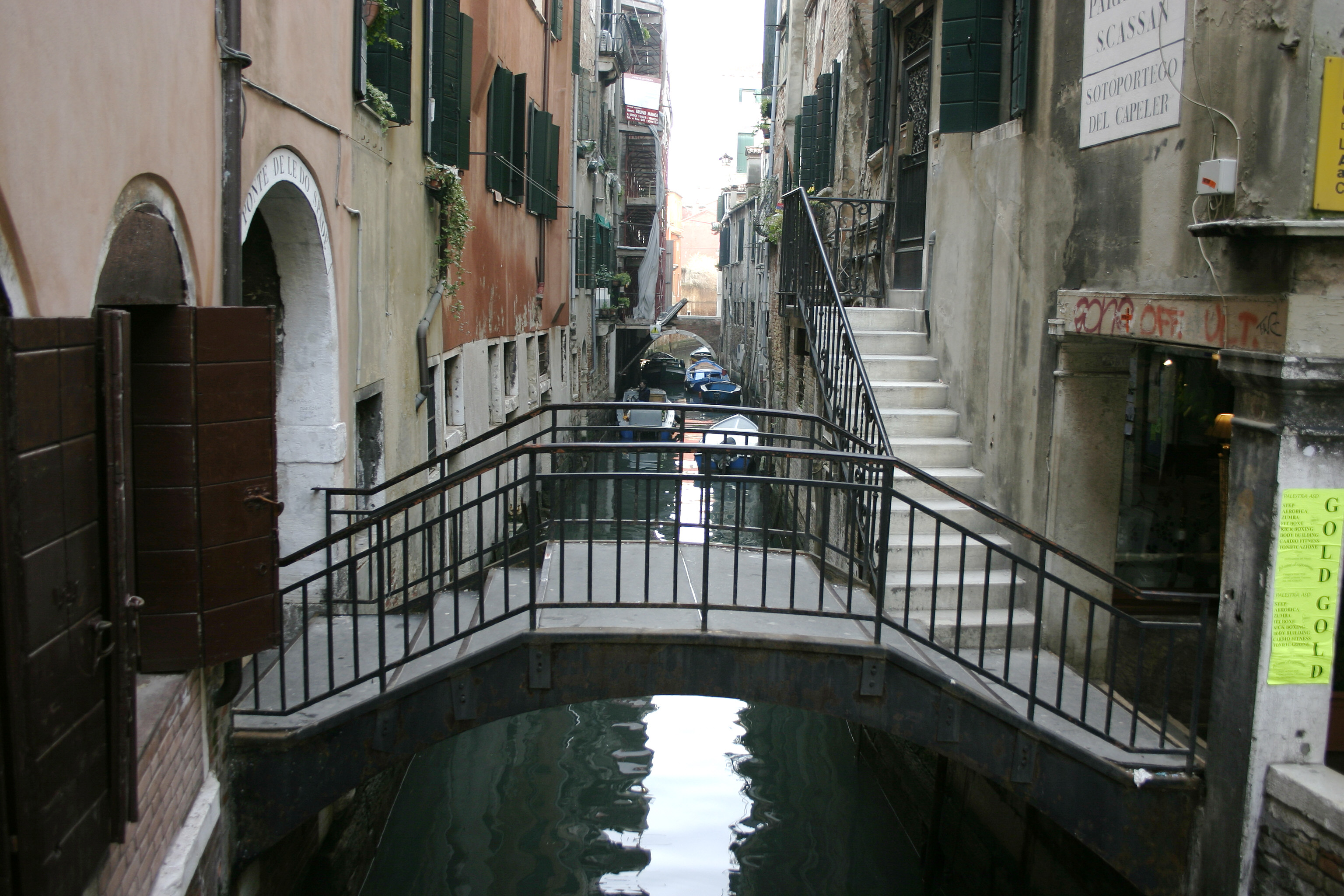 Venice – Small bridge